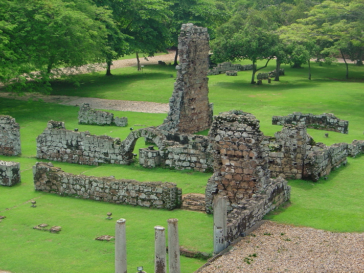 Casa Terrín in Panama Viejo